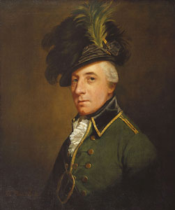 George Hanger, 4th Baron Coleraine (1751-1824)